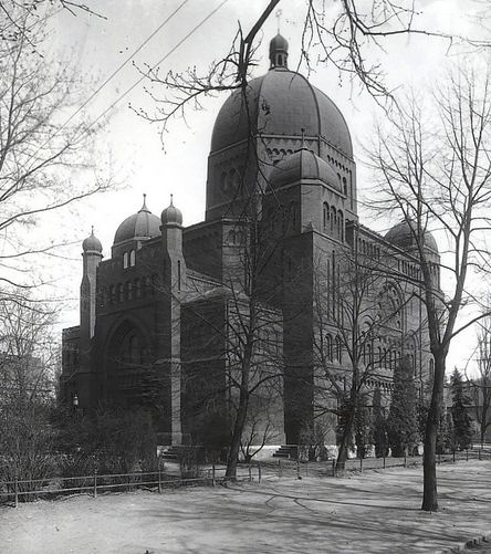 Old Synagogue in Opole in Silesia